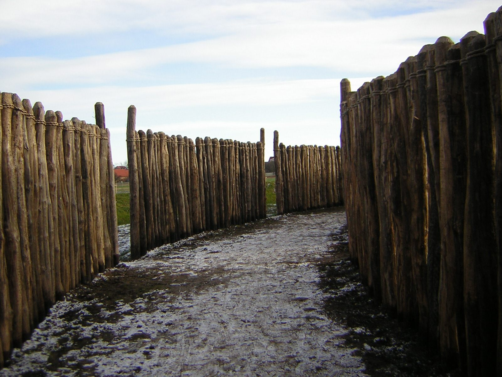 This image has been taken by Wikipedia-ce in late december of 2005 and is public domain. It shows the ring walk of the woodhenge of Goseck, Germany.